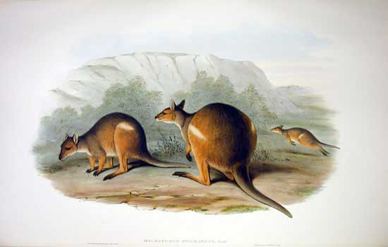 Thylogale stigmatica